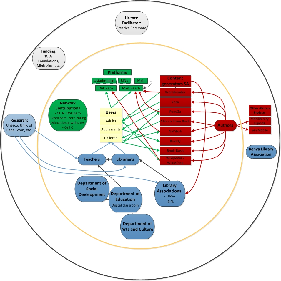 mLiteracy Visualisation